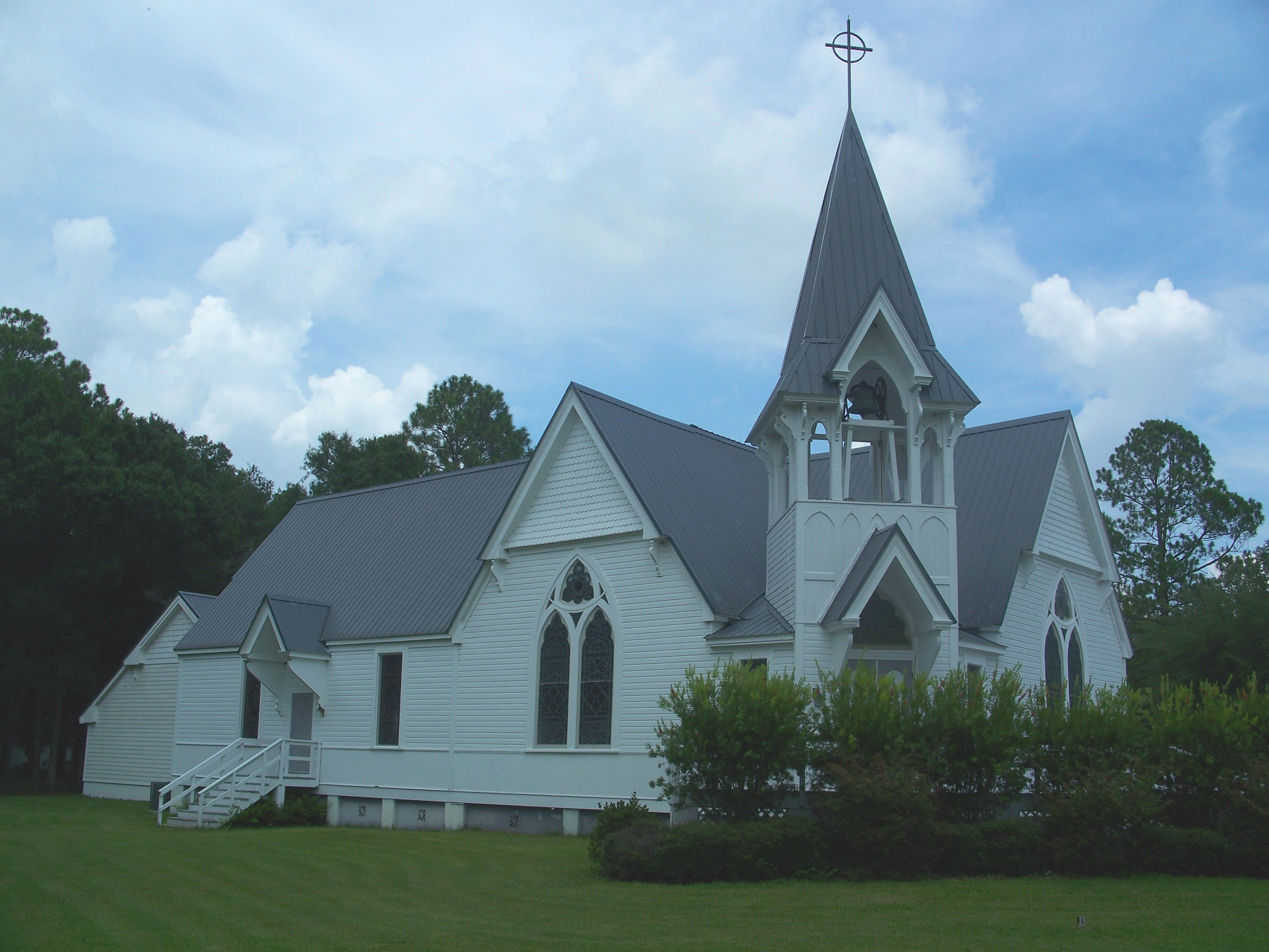 Starke, Florida: First Presbyterian Church